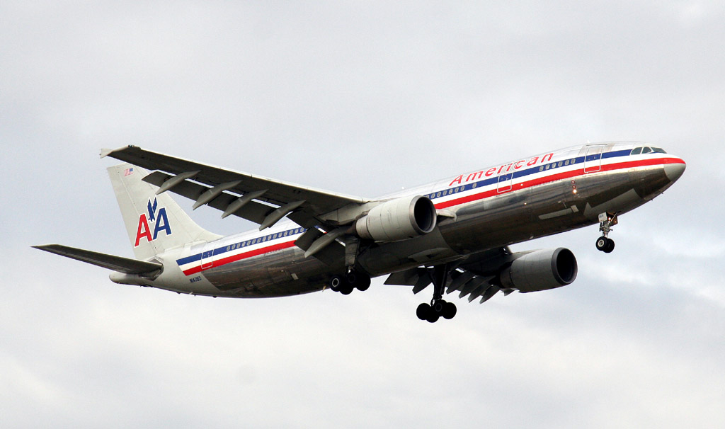 A newer model American Airlines Airbus A300-600 inbound to John F. Kennedy International Airport.